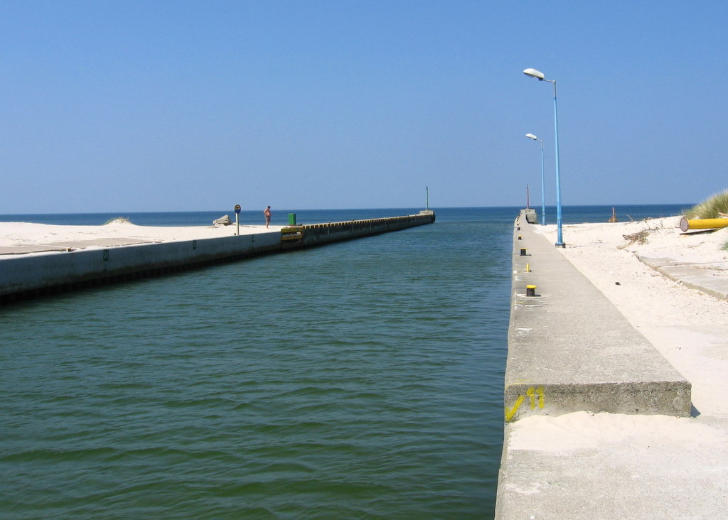 Resko Canal - estuary with breakwater in Dźwirzyno village (Poland)